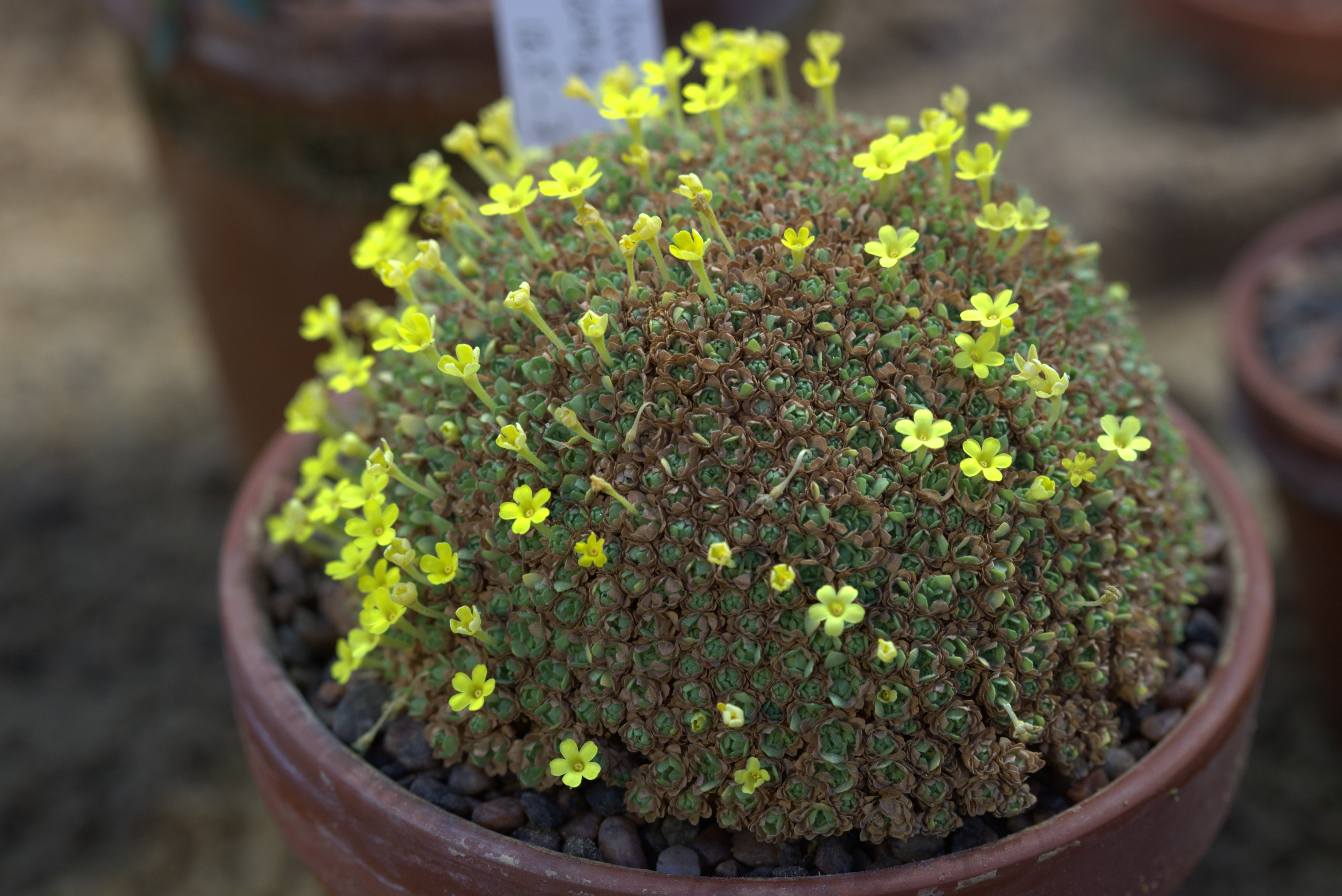 Dionysia zetterlundii at Gothenburg Botanical Garden in 2015. Plant id: 2002-2046 T4Z 125-7